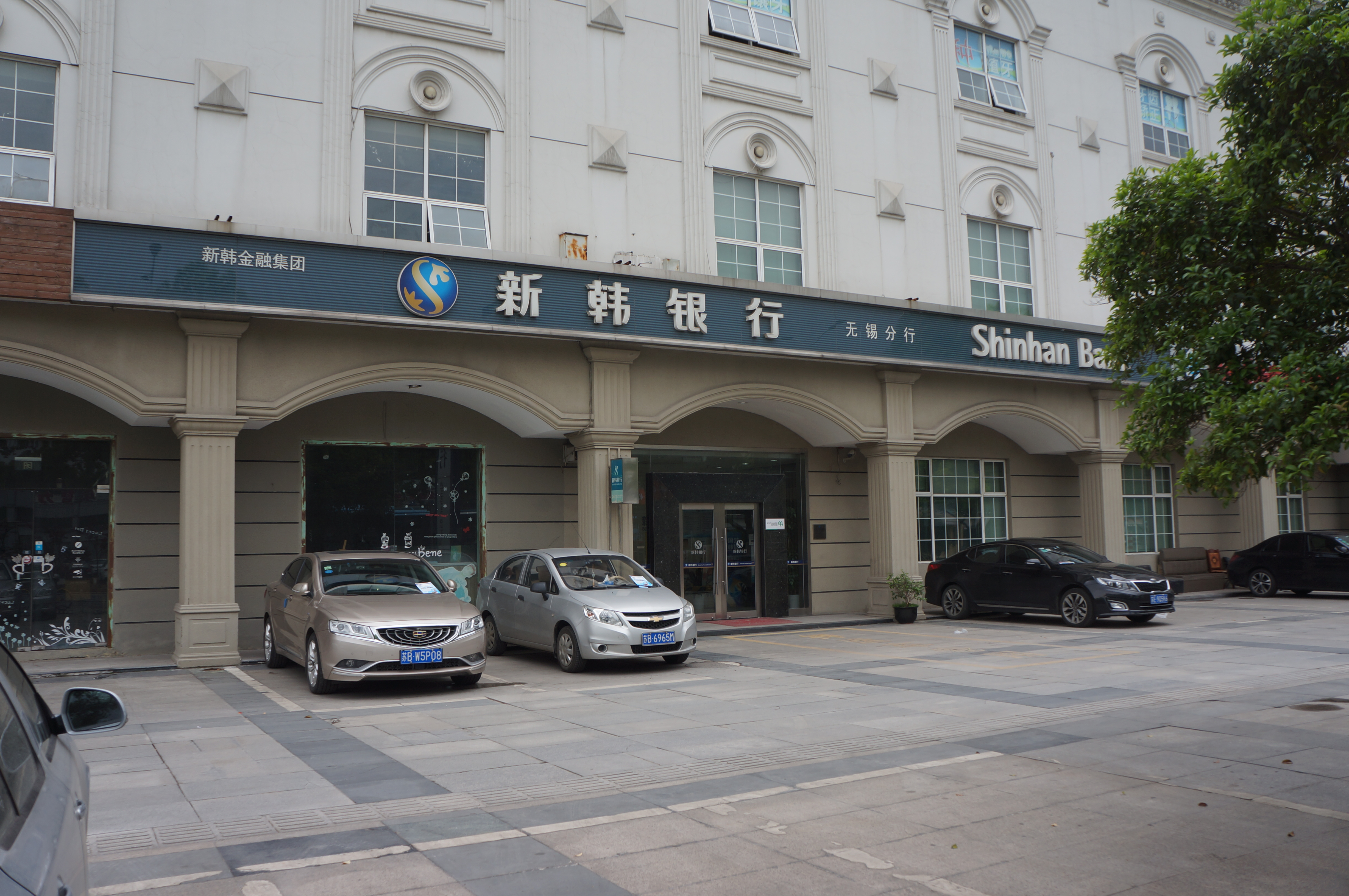 201705 Shinhan Bank in New District, Wuxi. Lots of Koreans live in New District